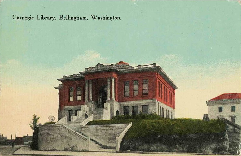 A postcard from the 1900s depicting the Carnegie Library in downtown Bellingham, Washington.